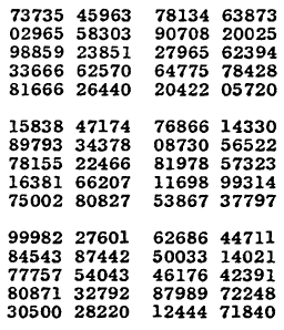 A sample of 300 digits randomly selected from RAND's A Million Random Digits with 100,000 Normal Deviates.